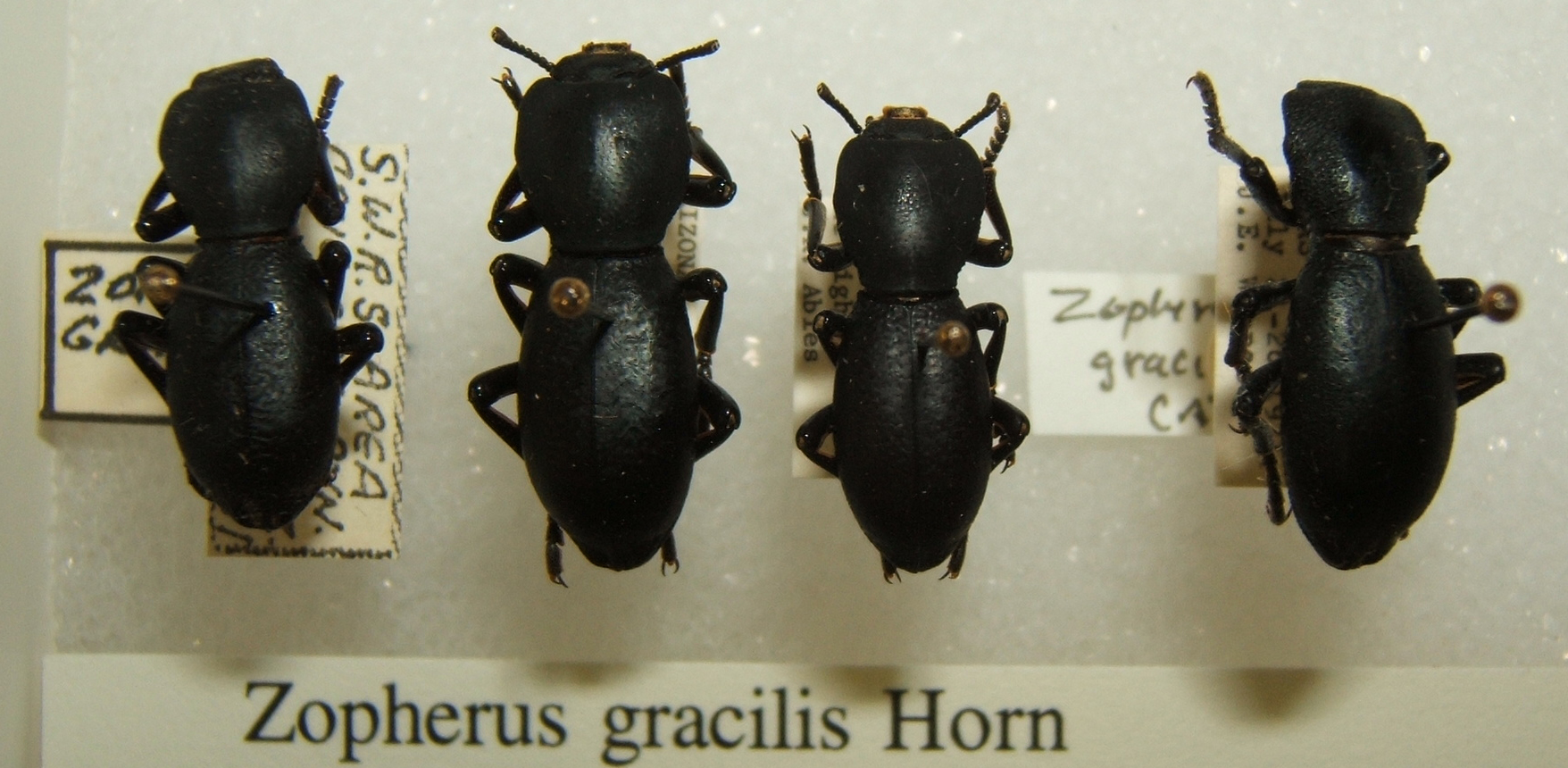 Zopherus gracilis adult taken by Shawn Hanrahan at the Texas A&M University Insect Collection in College Station, Texas.